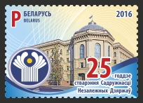 25th Anniversary of the Commonwealth of Independent States.